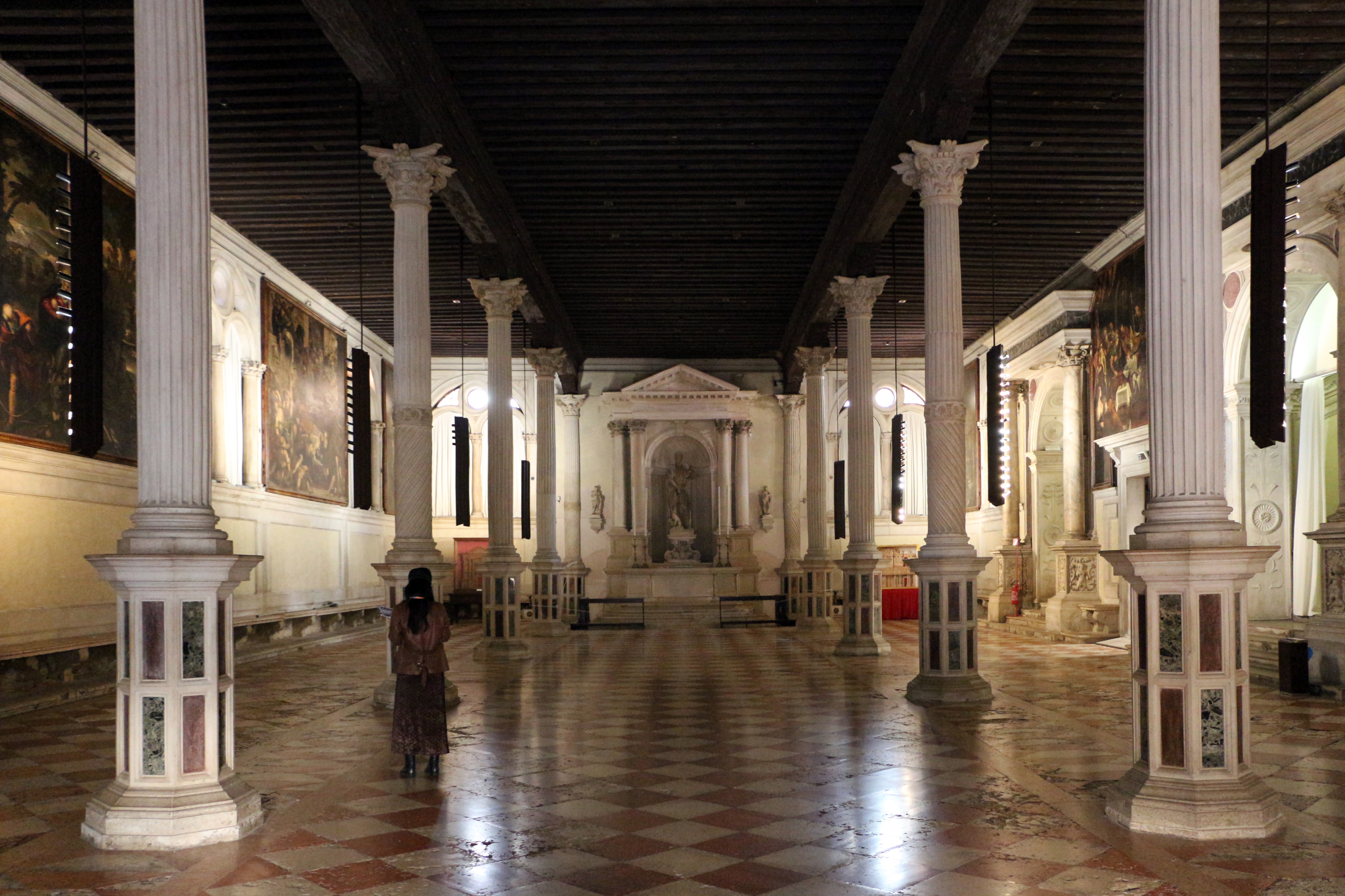 Scuola Grande di San Rocco - Sala terrena